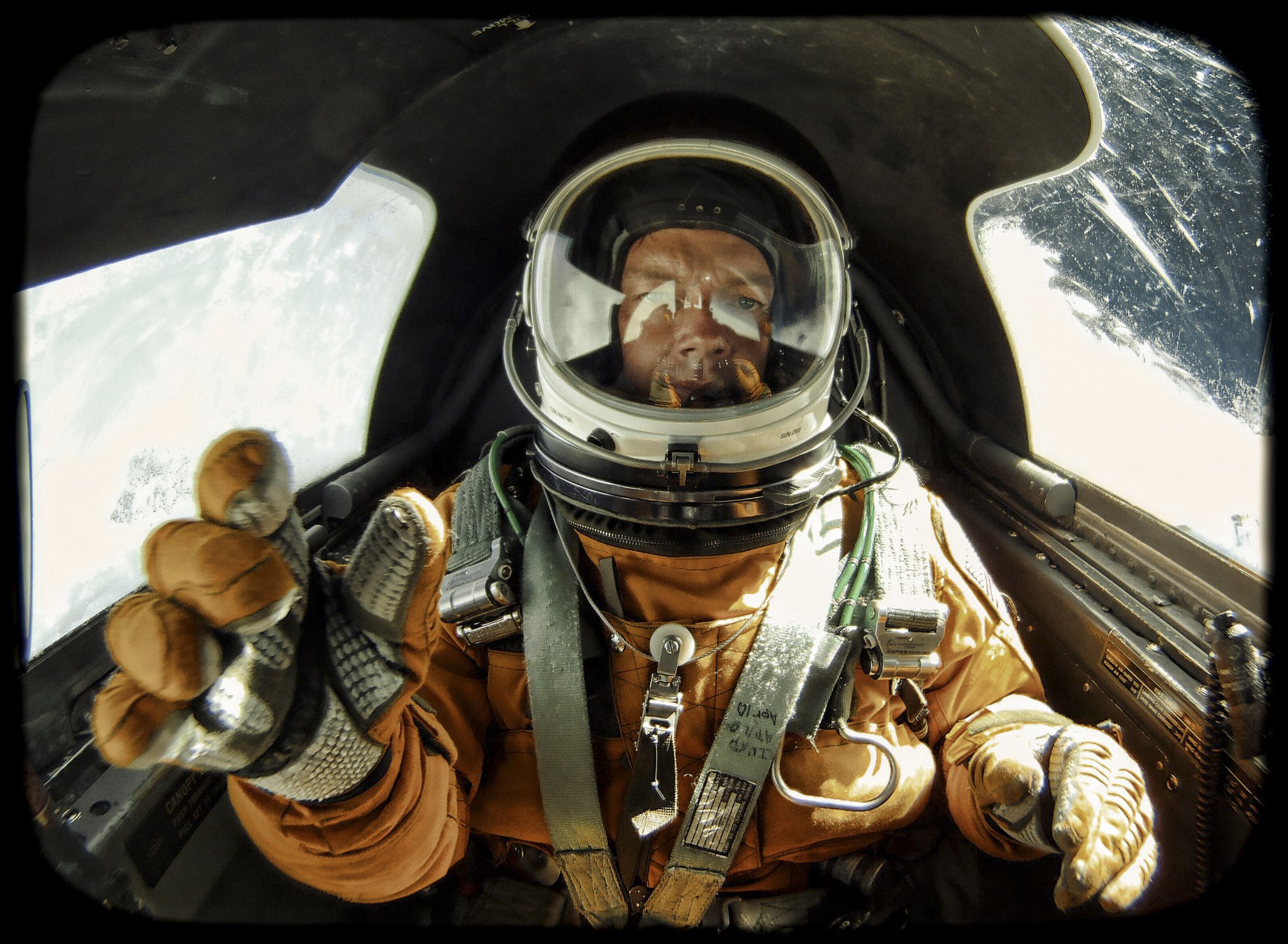 A selfie taken by Christopher Michel in a Lockheed U-2 at 70,000 feet